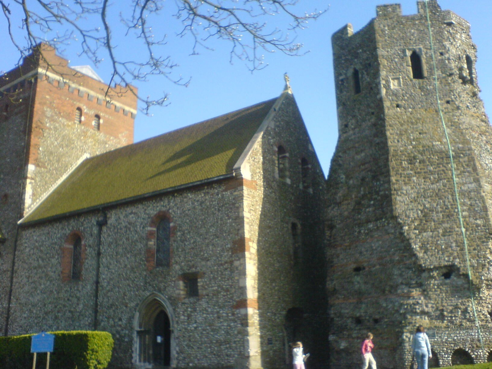 The Dover castle Church